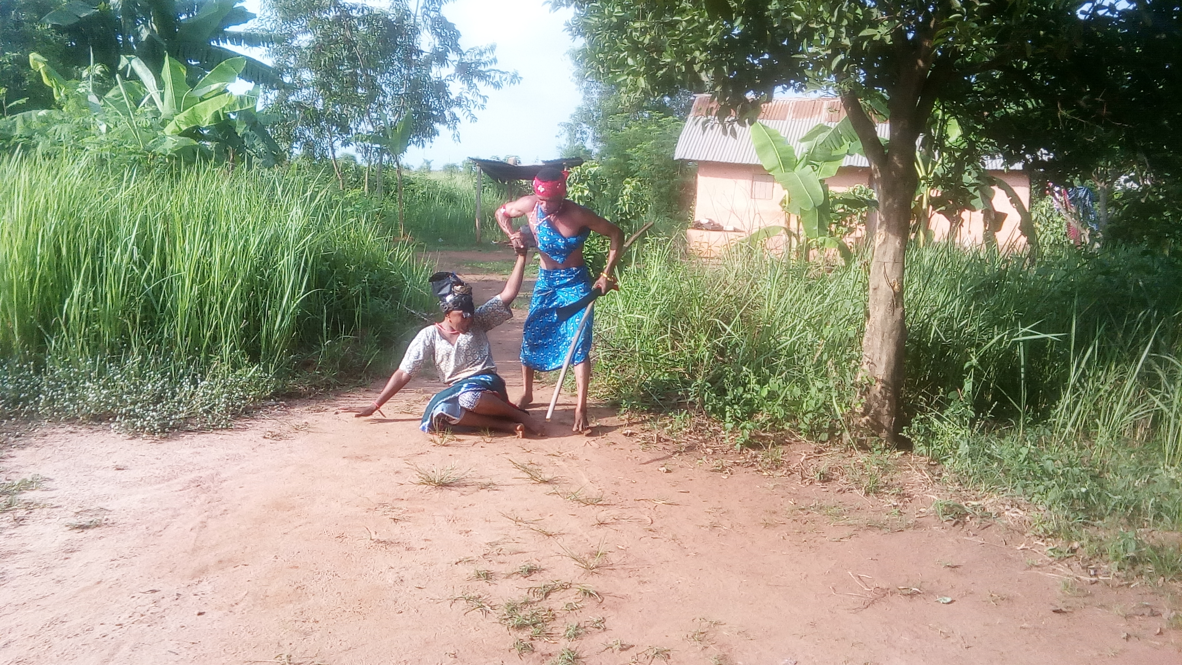 Maltraitance fait aux femmes This is an image of "African people at work" from Benin